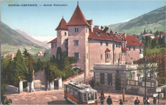 Tramway at Meran-Obermais with Schloss Rosenstein, in southern Tyrol. Rottenstein Castle is in the background on the right. In the foreground you see Castle Rosenstein